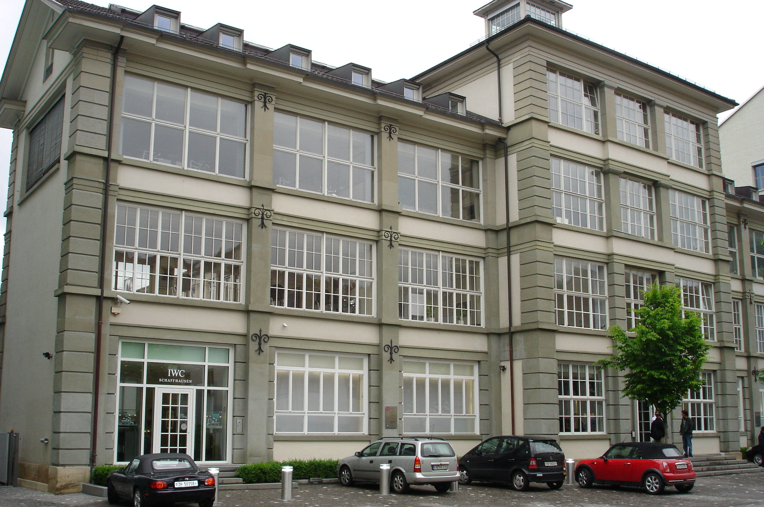 The main entrance of the International Watch Company manufacture in Schaffhausen, Switzerland.